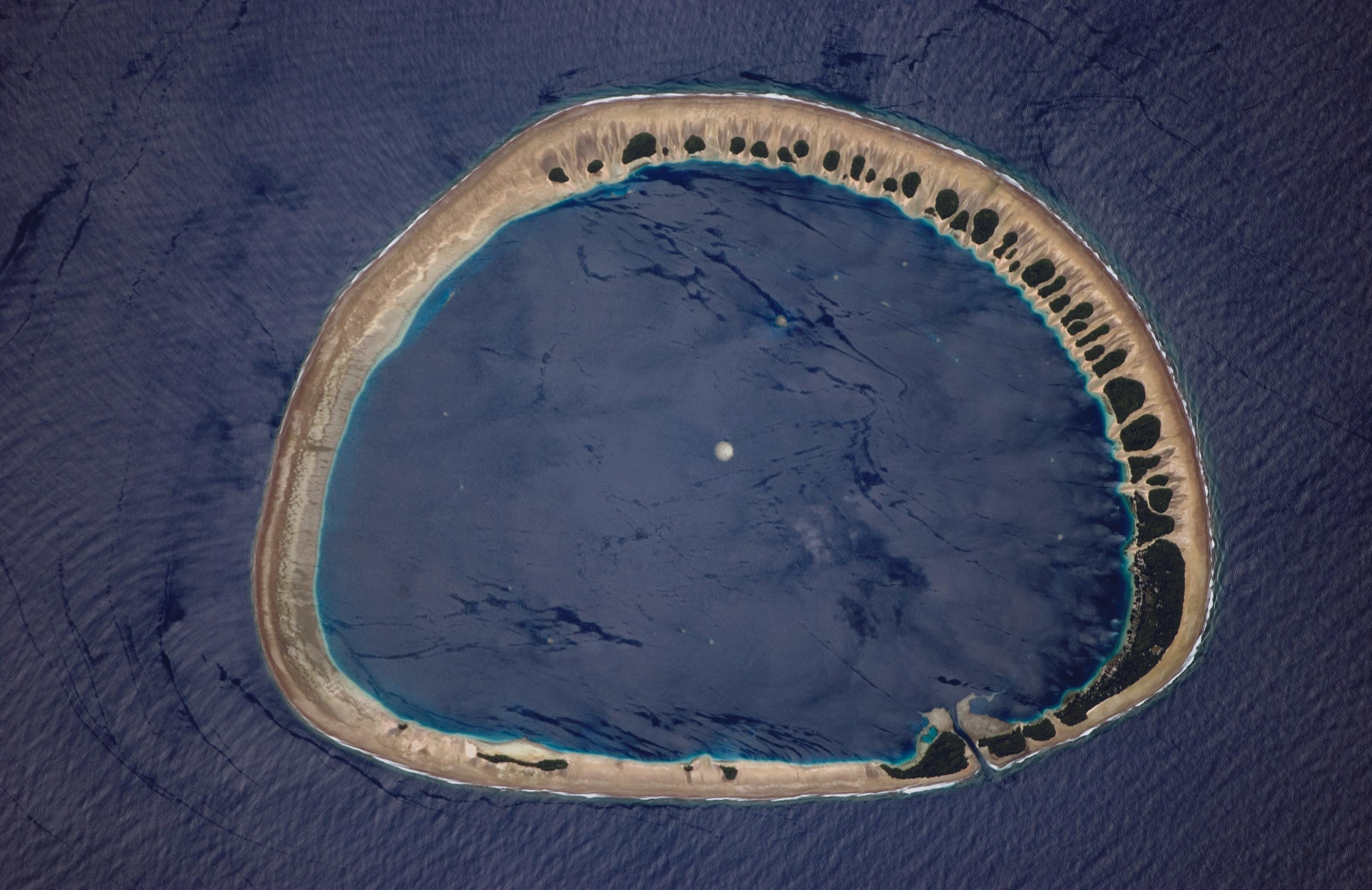 The atoll of Nukuoro, a polynesian exclave in the Federated States of Micronesia. The image shows the sandy atoll with 42 distinct patches of vegetation. These patches are located on the northeast and east portions of the atoll that face the dominant easterly winds. The detailed image (white box indicates area shown) shows the larger fields and settlements, which are on the inland side of the largest forest patch, protected from the wind. The land surface is probably slightly higher above sea level here because dunes build up preferentially on wind-facing slopes where beach sand is mobilized by wind. Swells driven by these winds approach from the east-southeast (right) and wrap around the atoll to produce an interference pattern on the downwind side. Water in the lagoon is notably calm in comparison. Coral heads appear in the lagoon, including one in the center of the image.